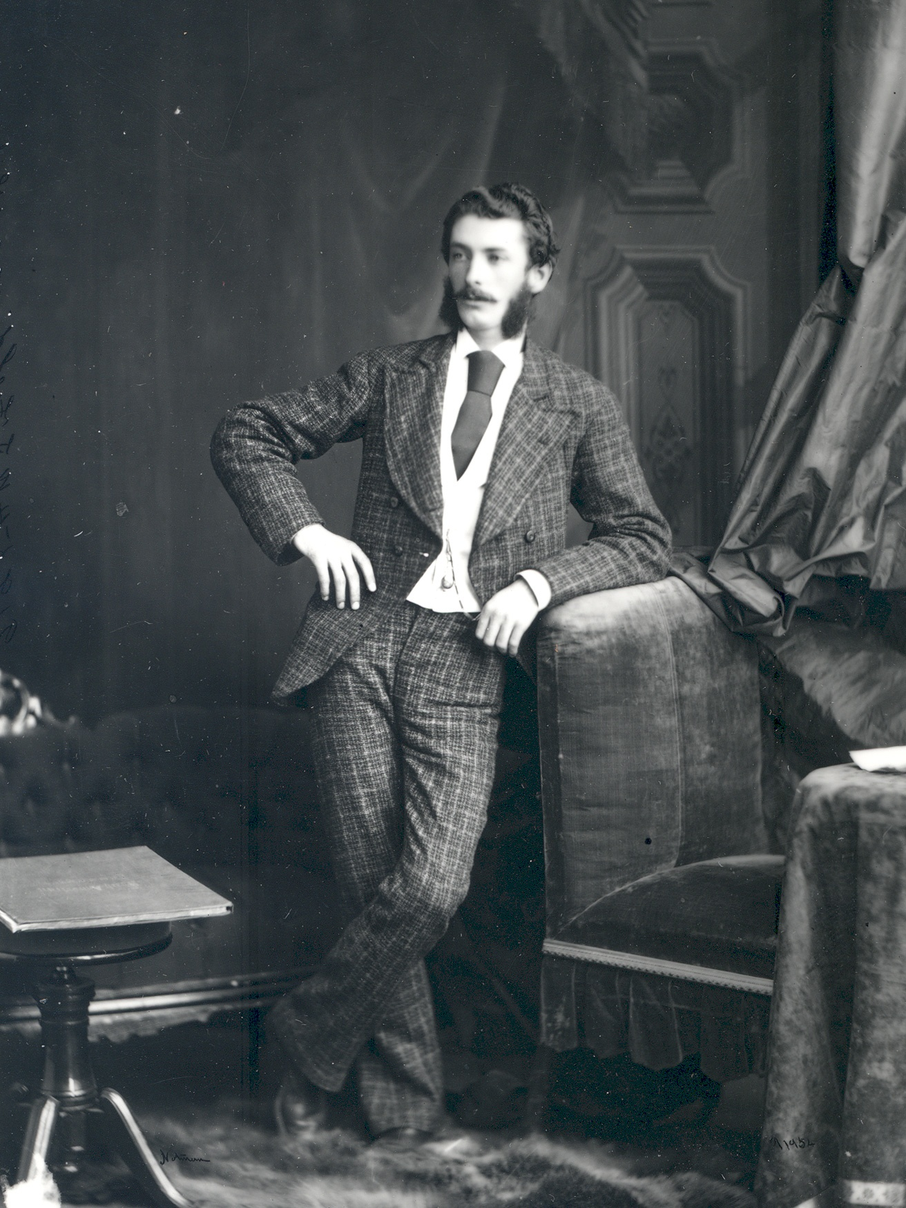 William S. Fielding was a young reporter with the Halifax Morning Chronicle who scooped the world with details of the SS Atlantic disaster. His fame would lead him into politics where he became Premier of Nova Scotia and subsequently federal Finance Minister.